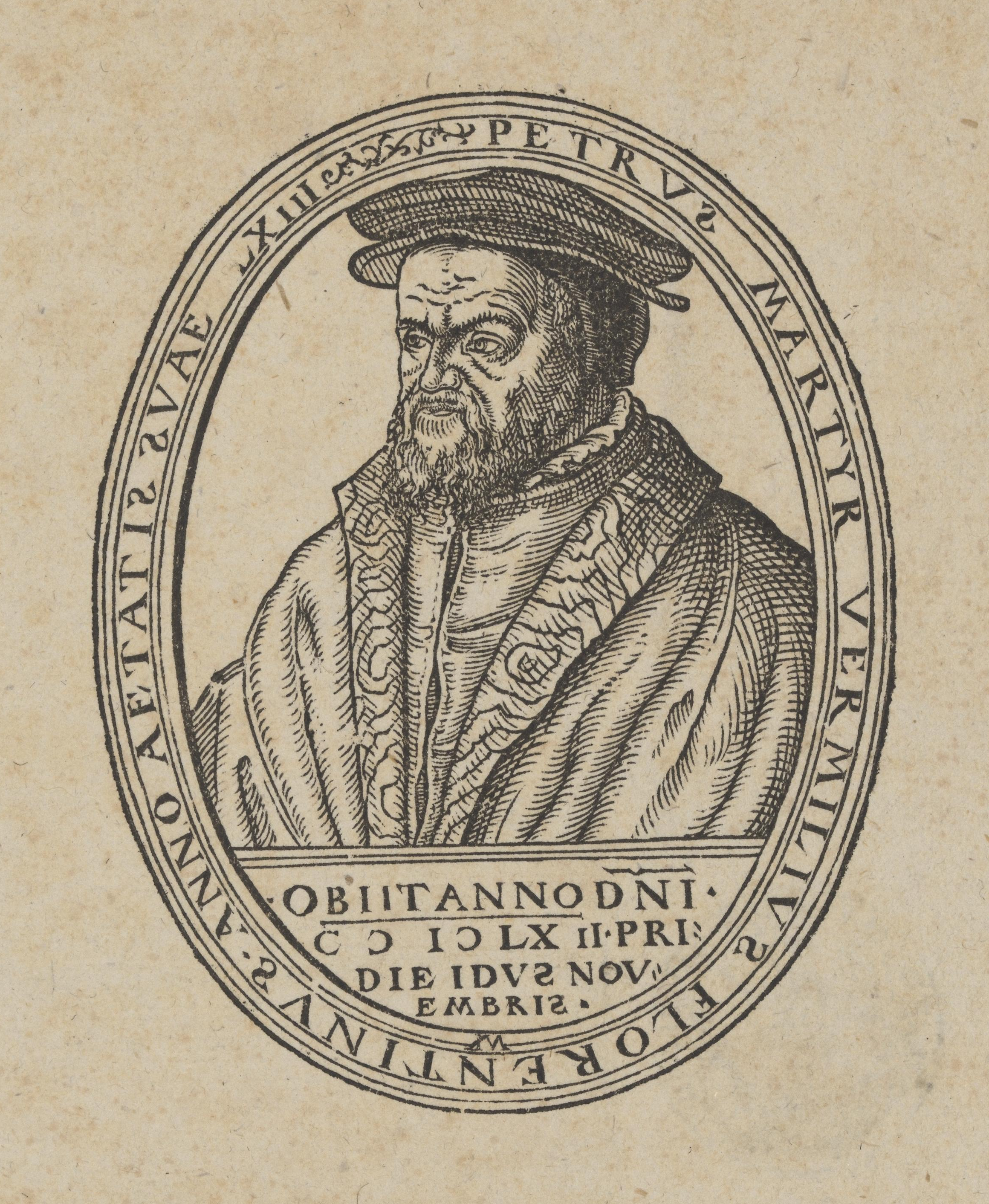 Woodcut of Peter Martyr Vermigli from Josias Simmler's Oratorio.